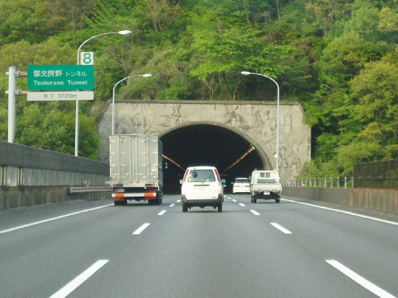 Shin-Tsuburano Tunnel on the Tomei Expressway